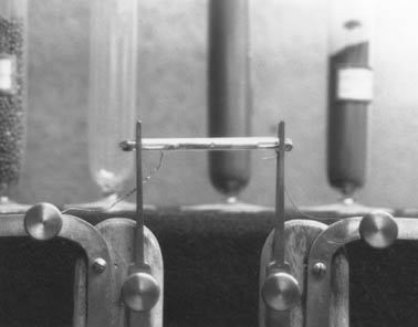 First radio coherer, invented by French physicist Edouard Branly and built by his assistant Rodolphe Gendron.